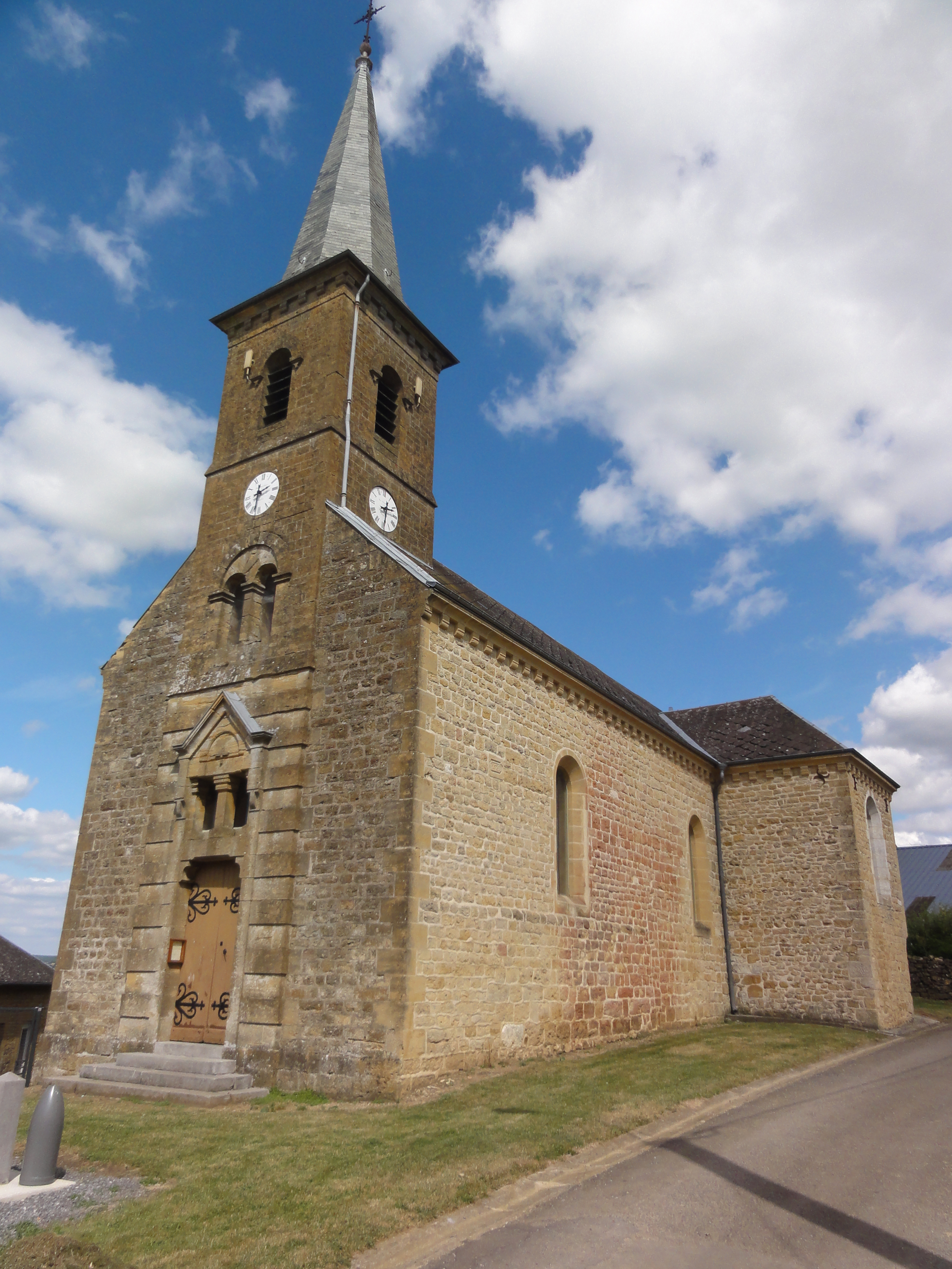 Marby (Ardennes) église